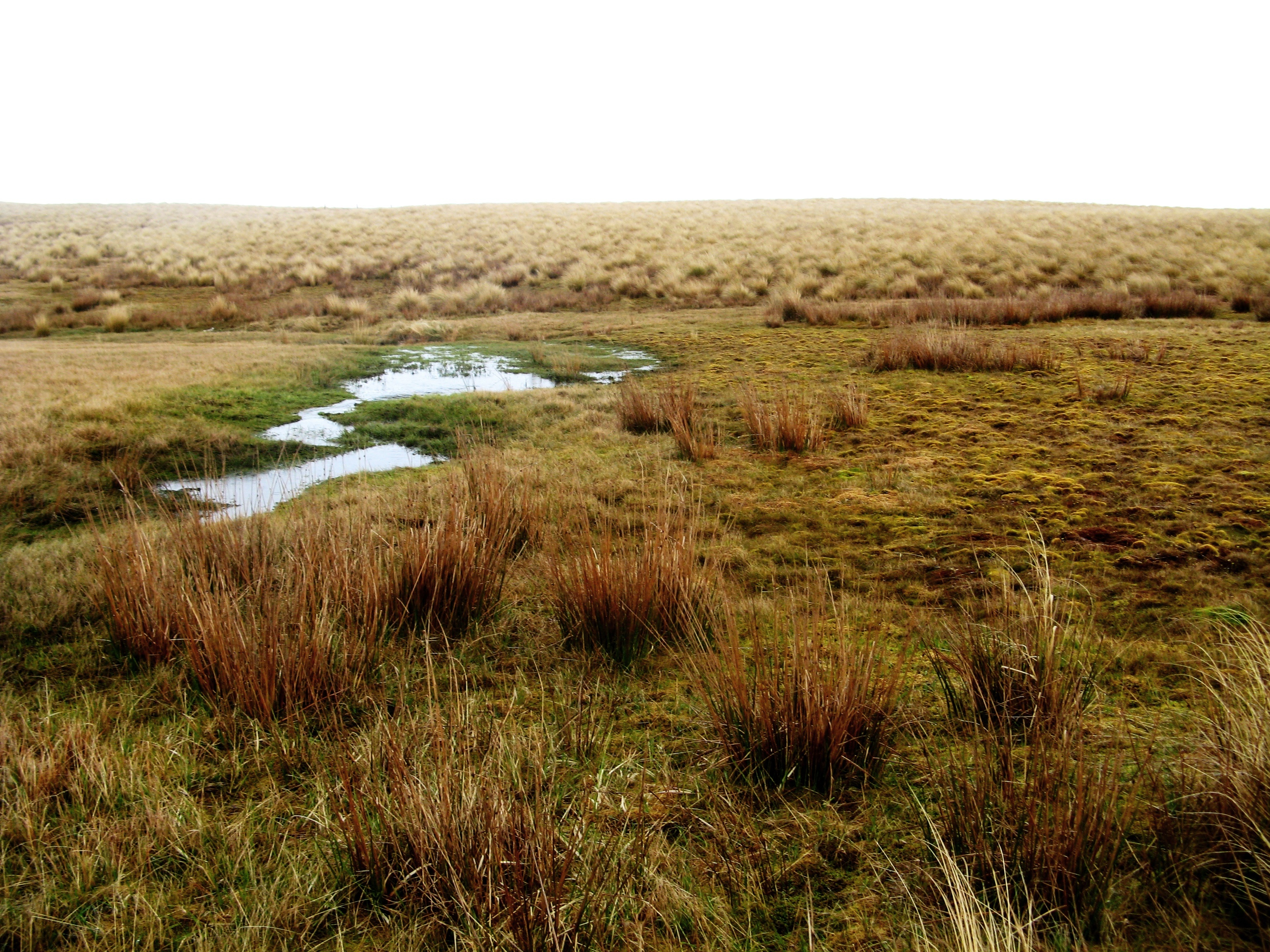 Habitat of Eldon's galaxias (Galaxias eldoni) in a deep spring-fed stream on the Lammerlaw ranges, Otago, New Zealand.